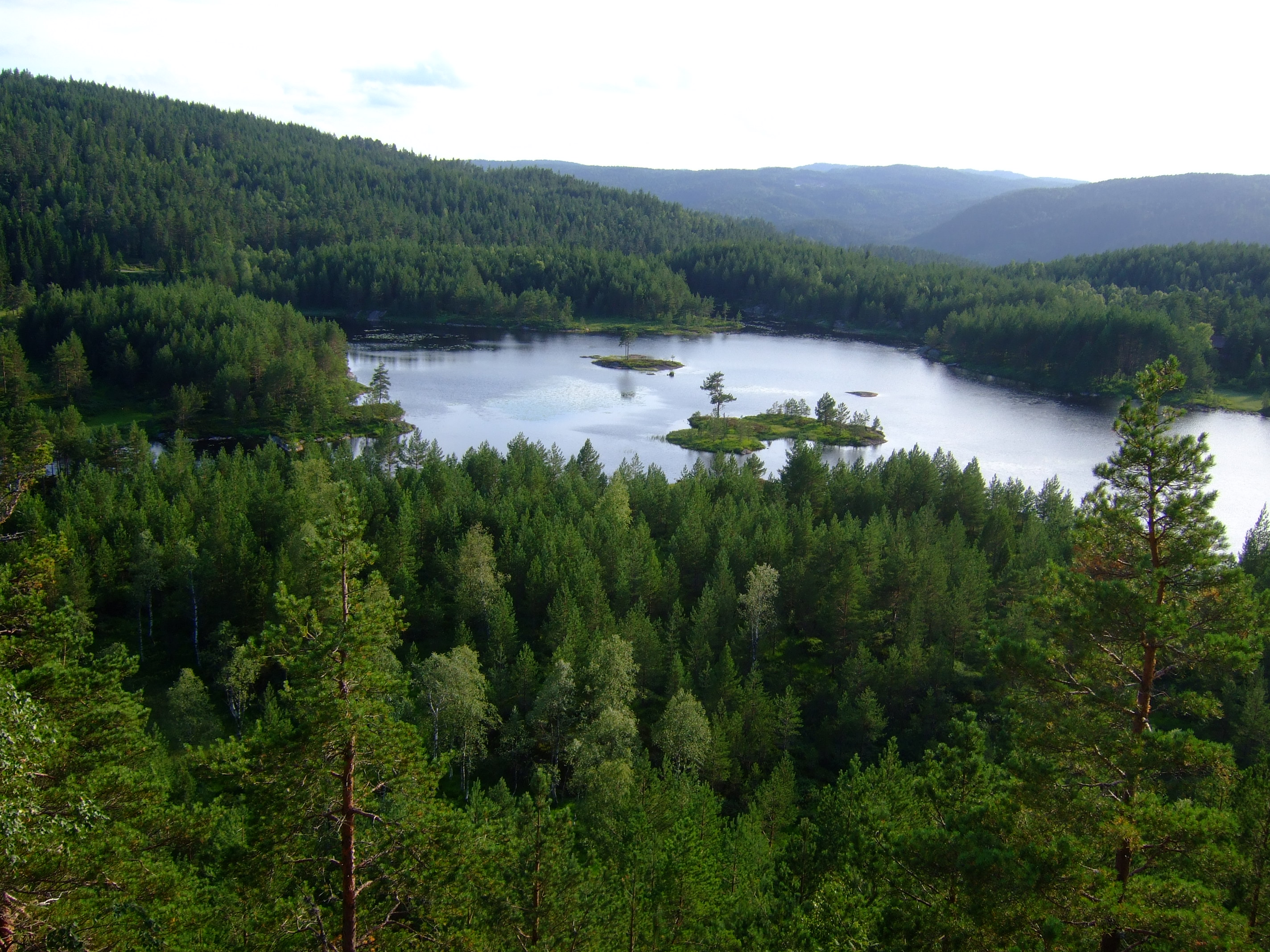 Landstveittjørna between Herefoss and Mjåvatn in Aust-Agder.